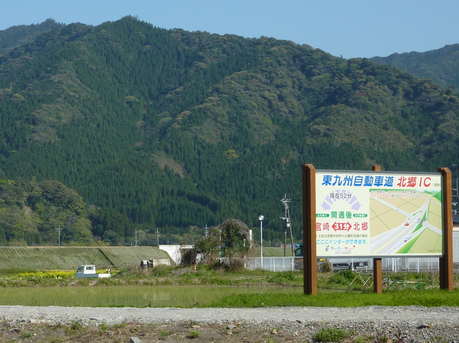 The Under Construction of Nichinan Kitago Interchange of Higashi-kyushu Expressway in Nichinan City, Miyazaki Prefecture, Japan.